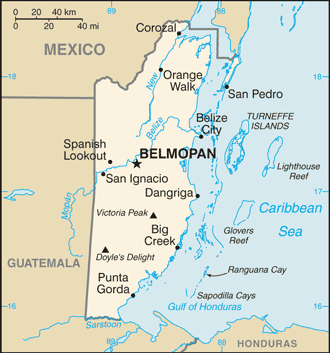 Belize map from CIA World Factbook (since 13 May 2008), converted from original GIF format